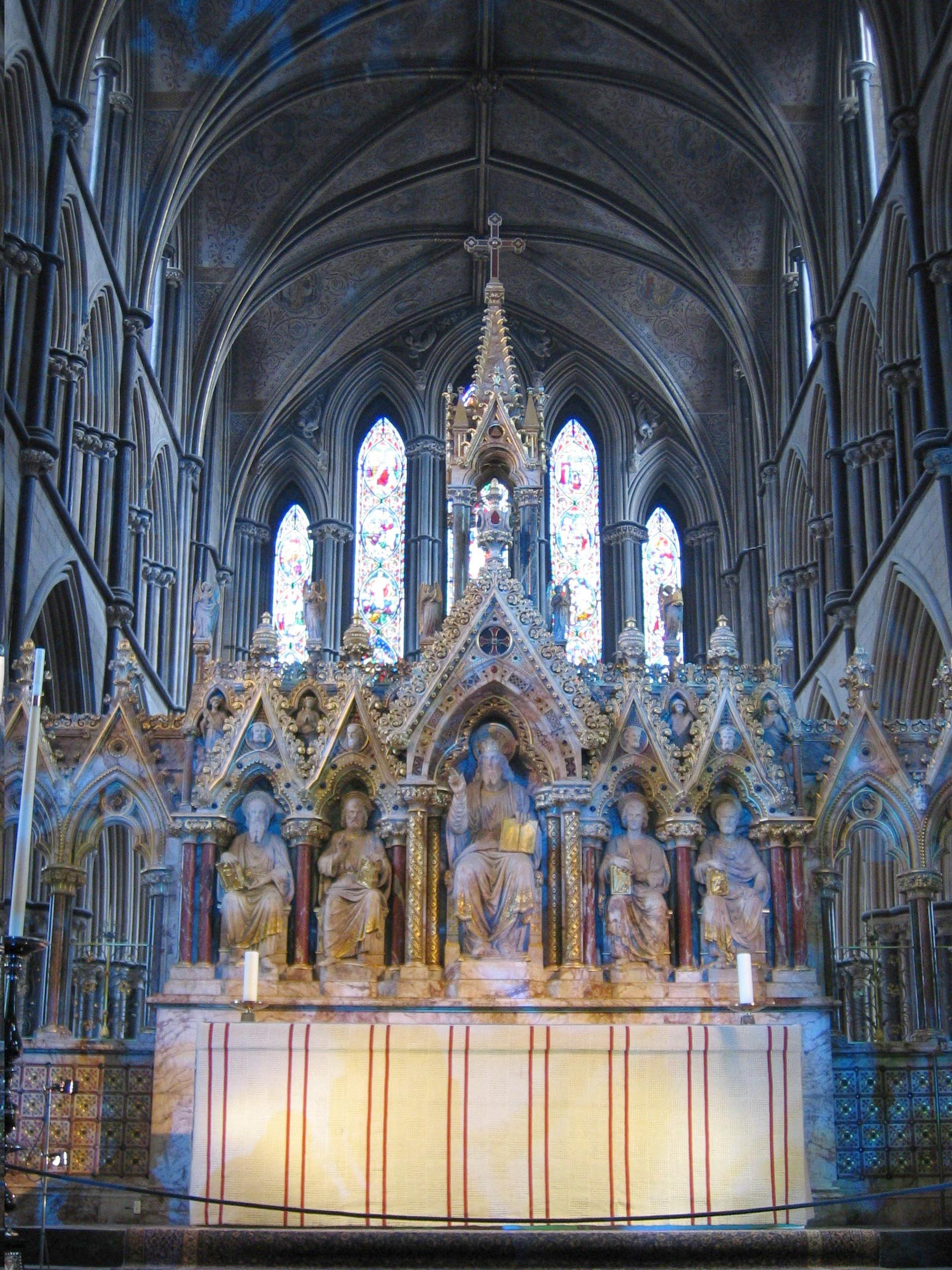 Altar in Worcester Cathedral